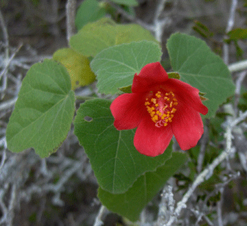 Hibiscus martianus in South Texas.